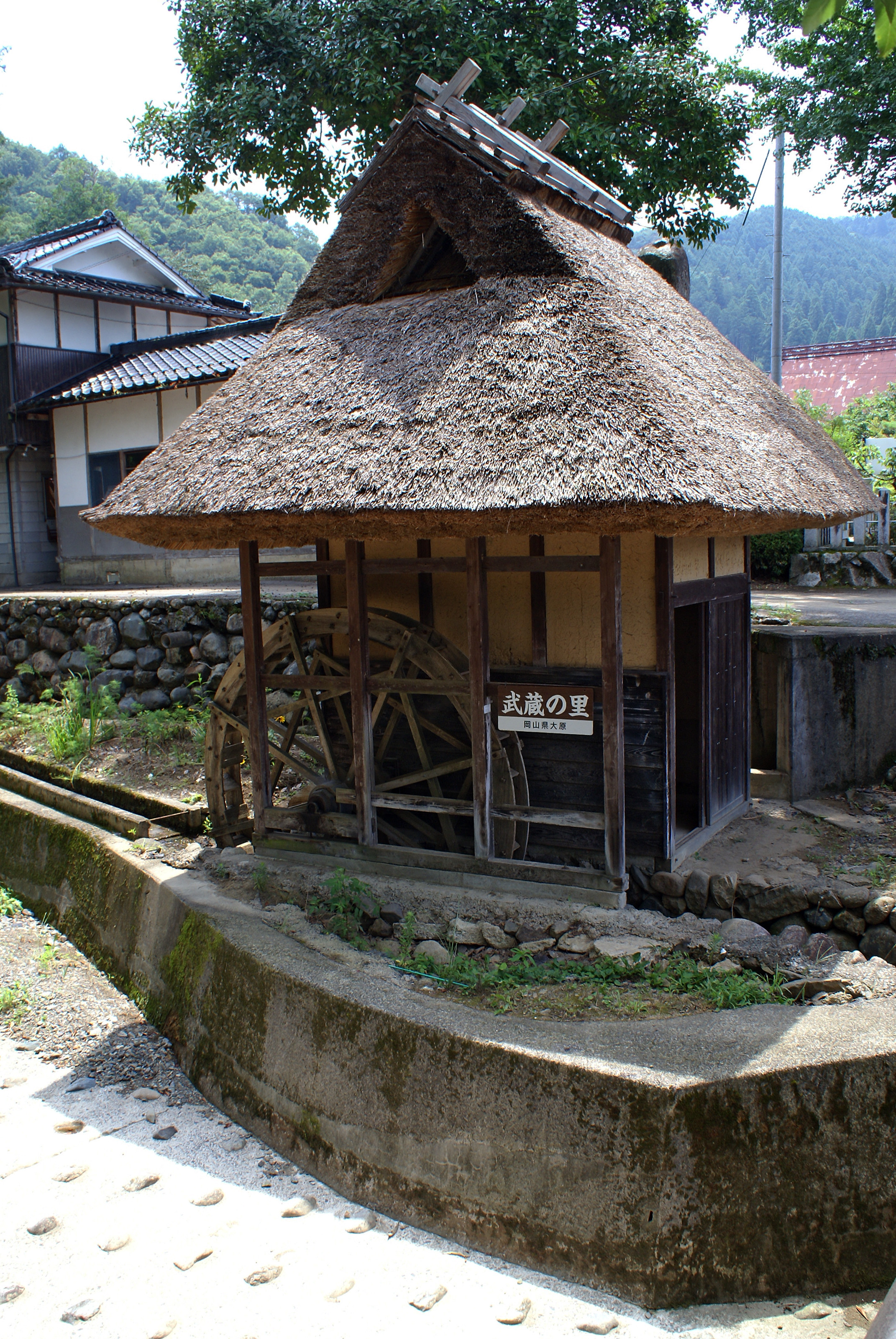 at Musashi-no-sato in Mimasaka, Okayama prefecture, Japan